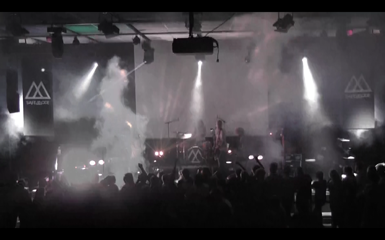 Safemode For A Better Tomorrow Realese consert